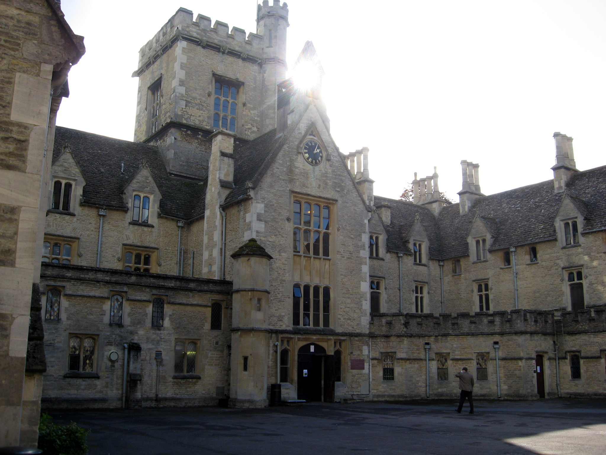 Royal Agricultural College main building, Cirencester, England